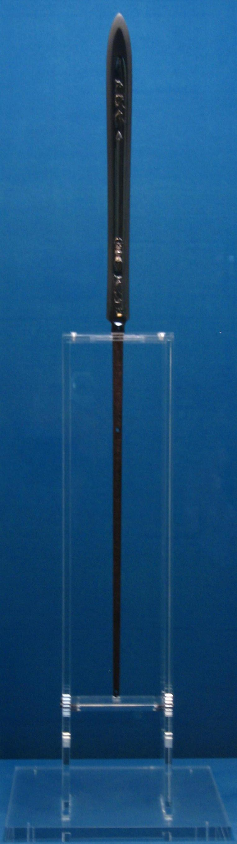 An ō-sasaho yari blade (the copy of Tonbogiri by Munetsugu Koyama in 1847), in Tokyo National Museum.